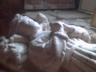 Monument to Edward of Middleham, in St Helen and the Holy Cross parish church, Sheriff Hutton, North Yorkshire. He was the eldest son of King Richard III, died in 1484 and is the only Prince of Wales to be buried in a parish church. The monument is a cenotaph, as the prince was buried elsewhere. Its present position in the north-east corner of the church is not where it was intended to stand.